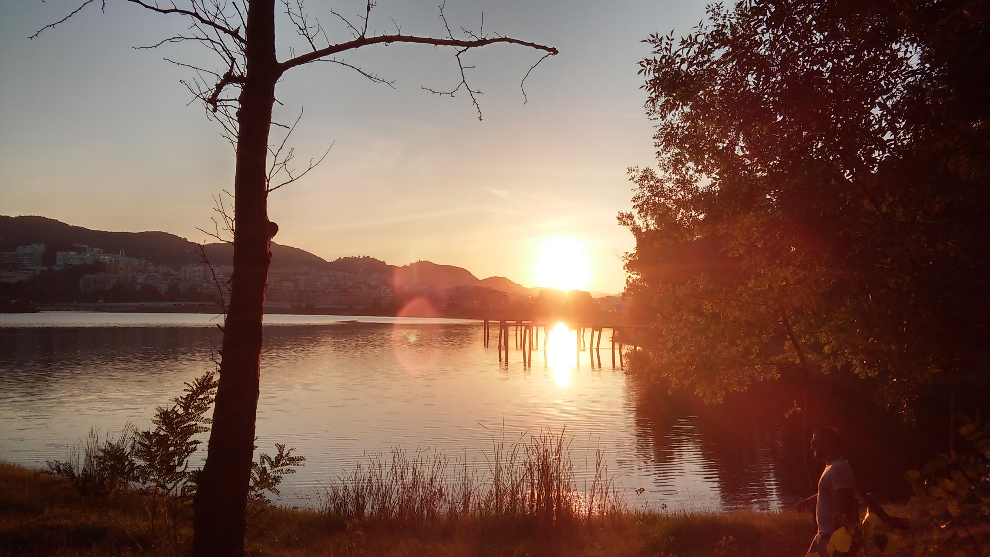 The park is situated on the southern part of Tirana, Albania.